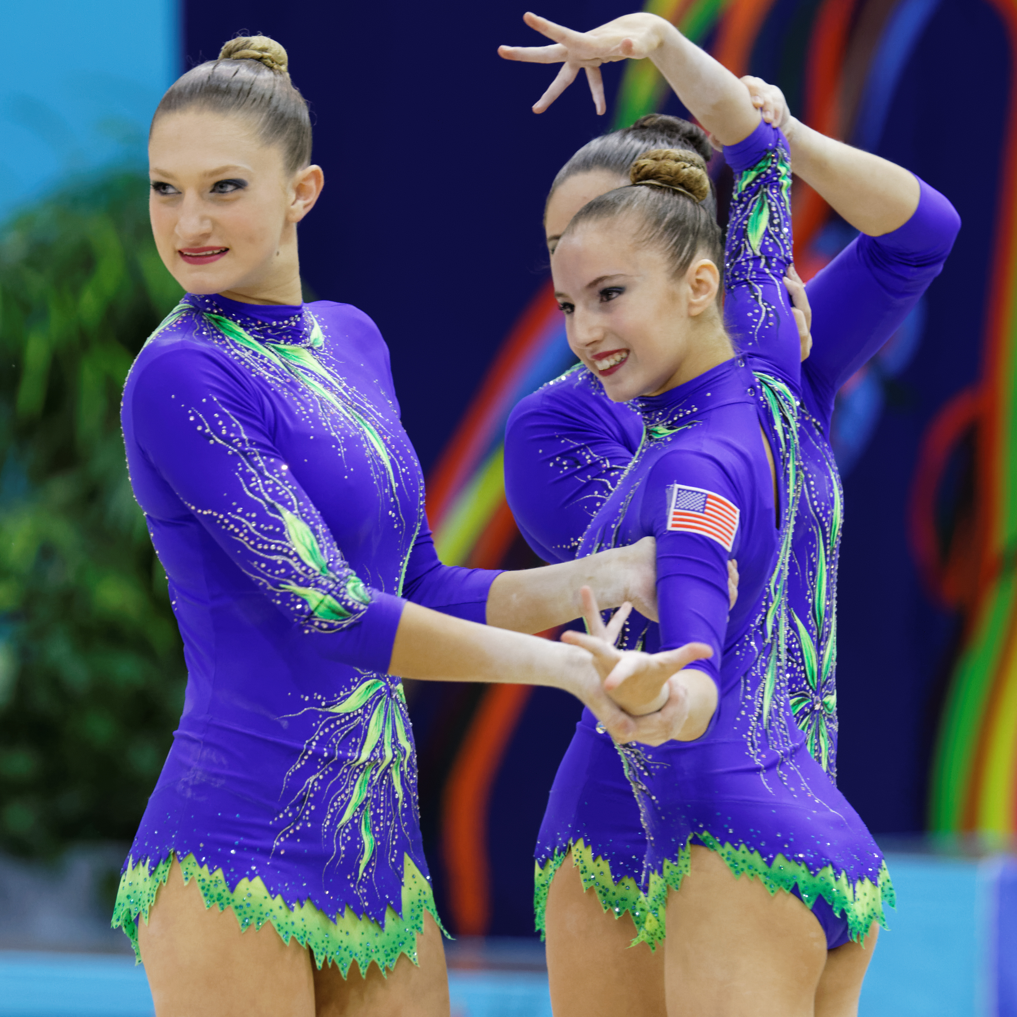 2014 Acrobatic Gymnastics World Championships, 10th-12 July, Levallois-Perret, France. Qualifications: women's group. USA.